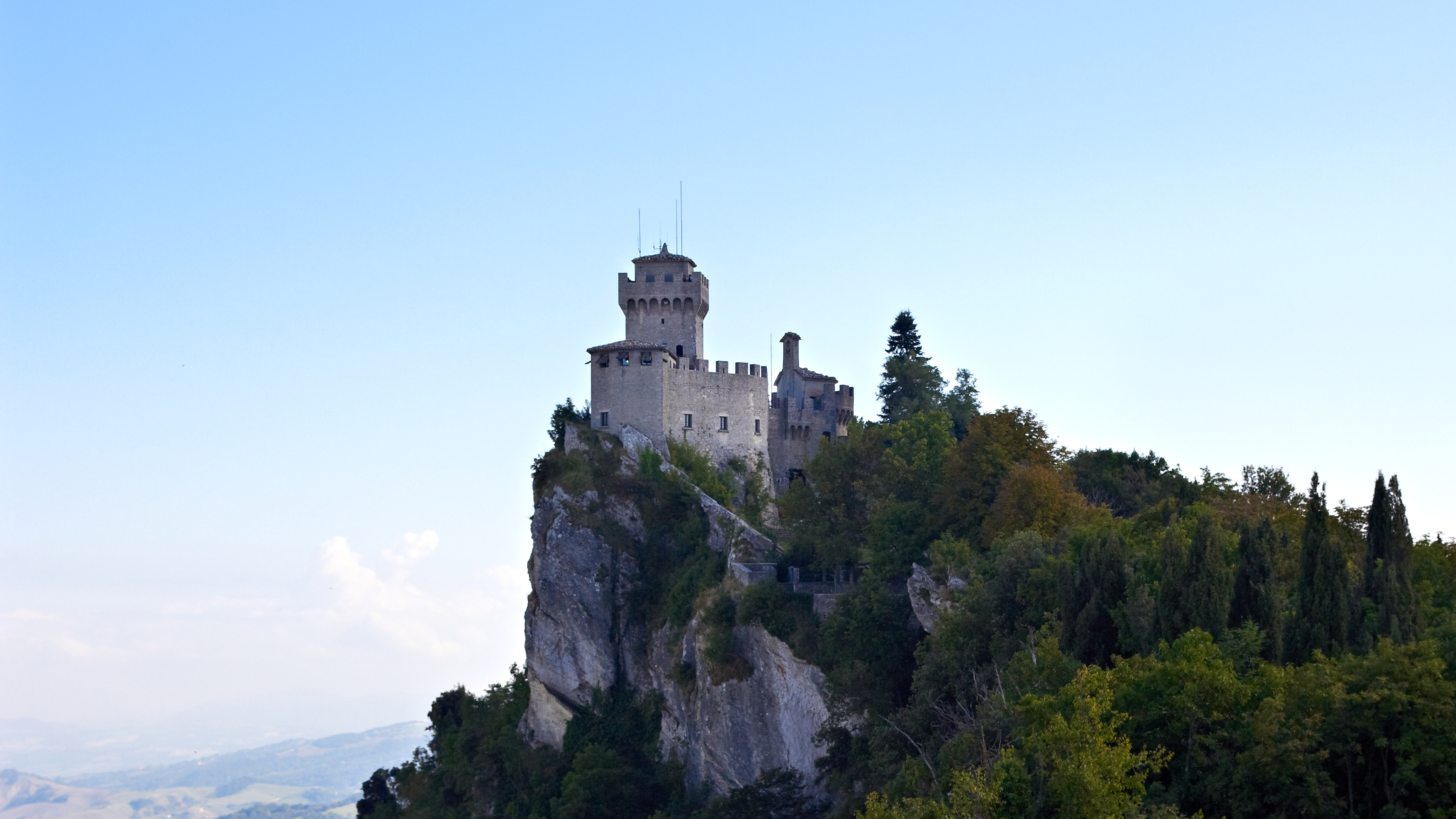 De La Fratta (Cesta), San Marino